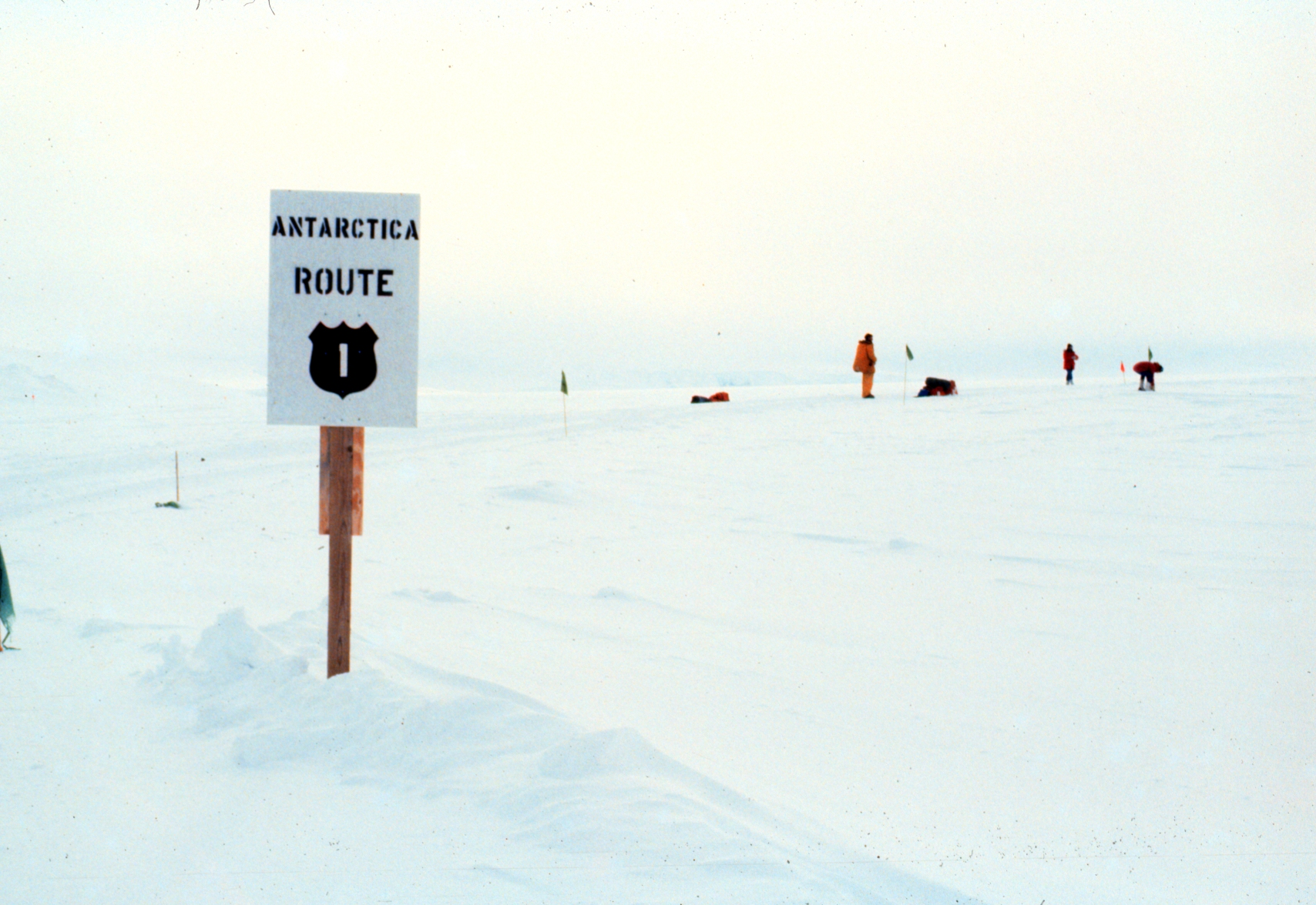 Antarctica Route 1—there's never a rush hour.